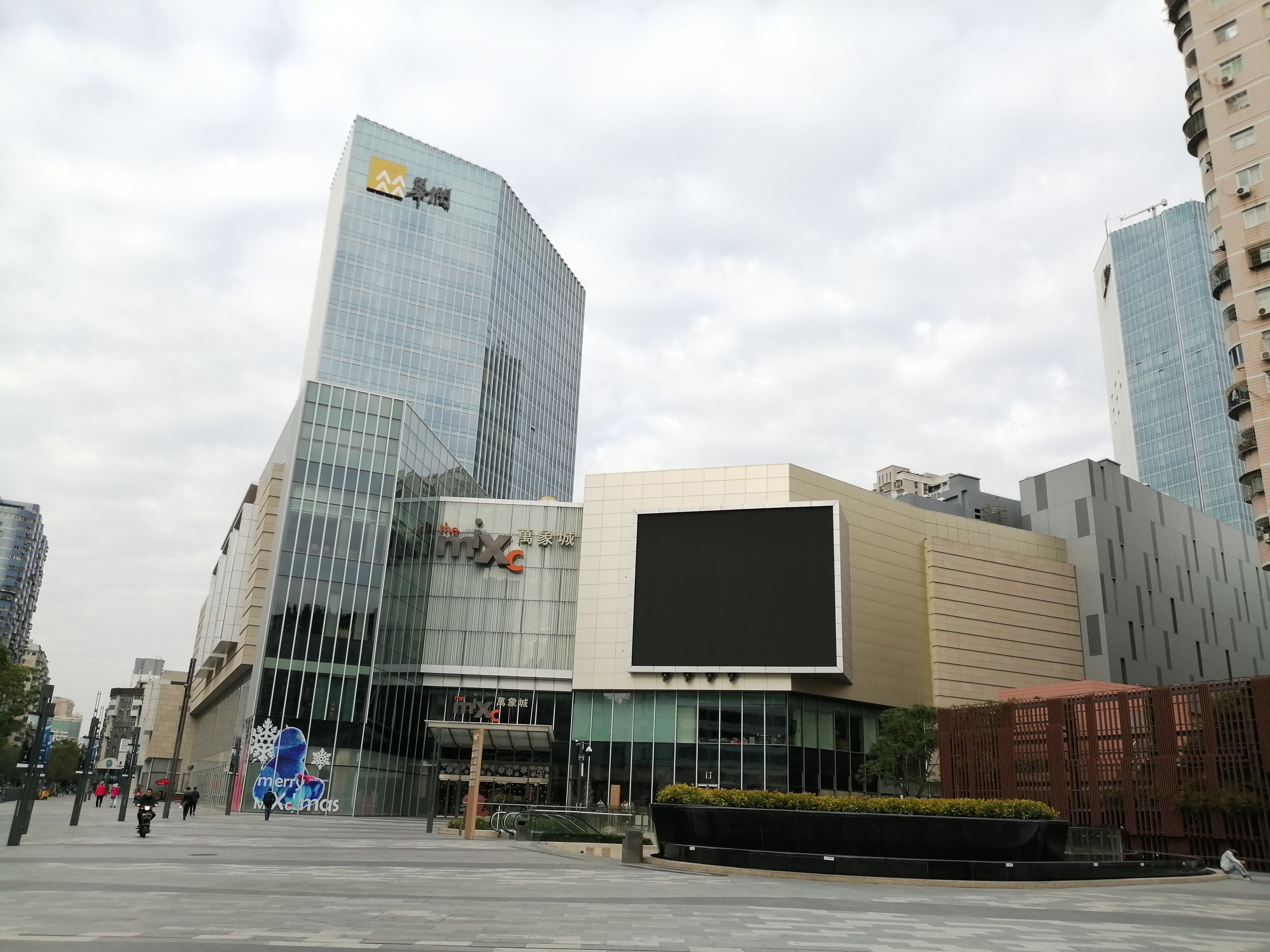 MixC Xiamen, located near Xiamen Railway Station, was opened in November 2018. 中文（中国大陆）: 厦门万象城，2018年11月开幕